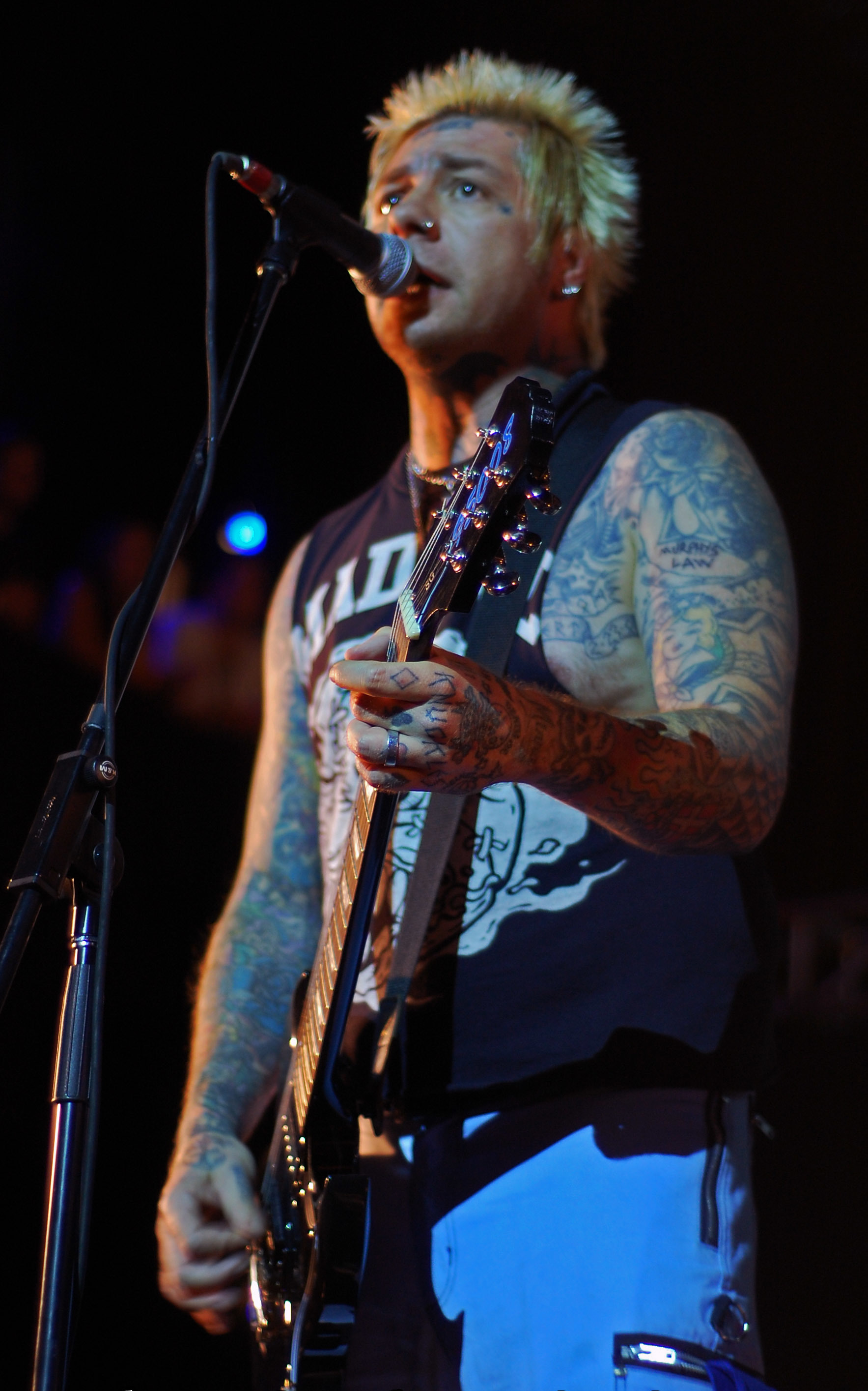 Lars Frederiksen in concert in the House of Blues of Boston